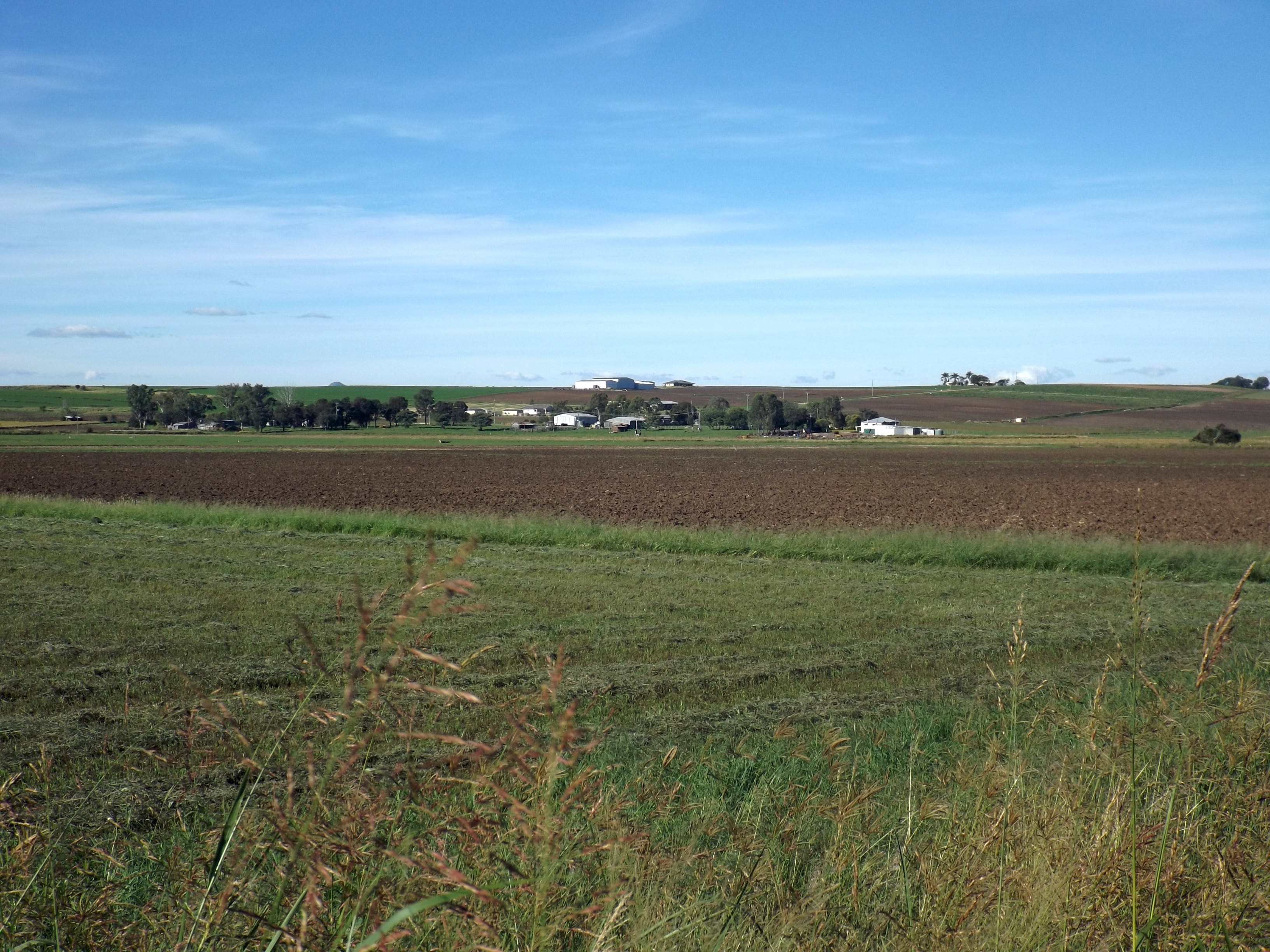 Photo of farms at Kalbar, Scenic Rim Region, Queensland, Australia.